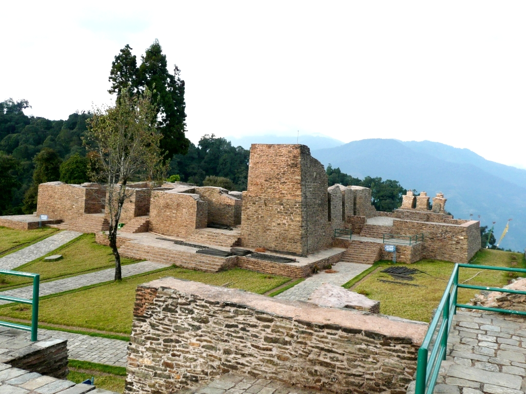 A photo of Rabdentse Palace (Ruined capital of Sikkim, India). It is a historic monument.Tensung Namagyal, the second Chogyal of Sikkim shifted the capital from Yuksom to Rabdentse in the late 17th century.